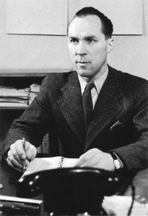 Photograph of the Finnish vice CEO Lauri Jäntti (1909–2006).